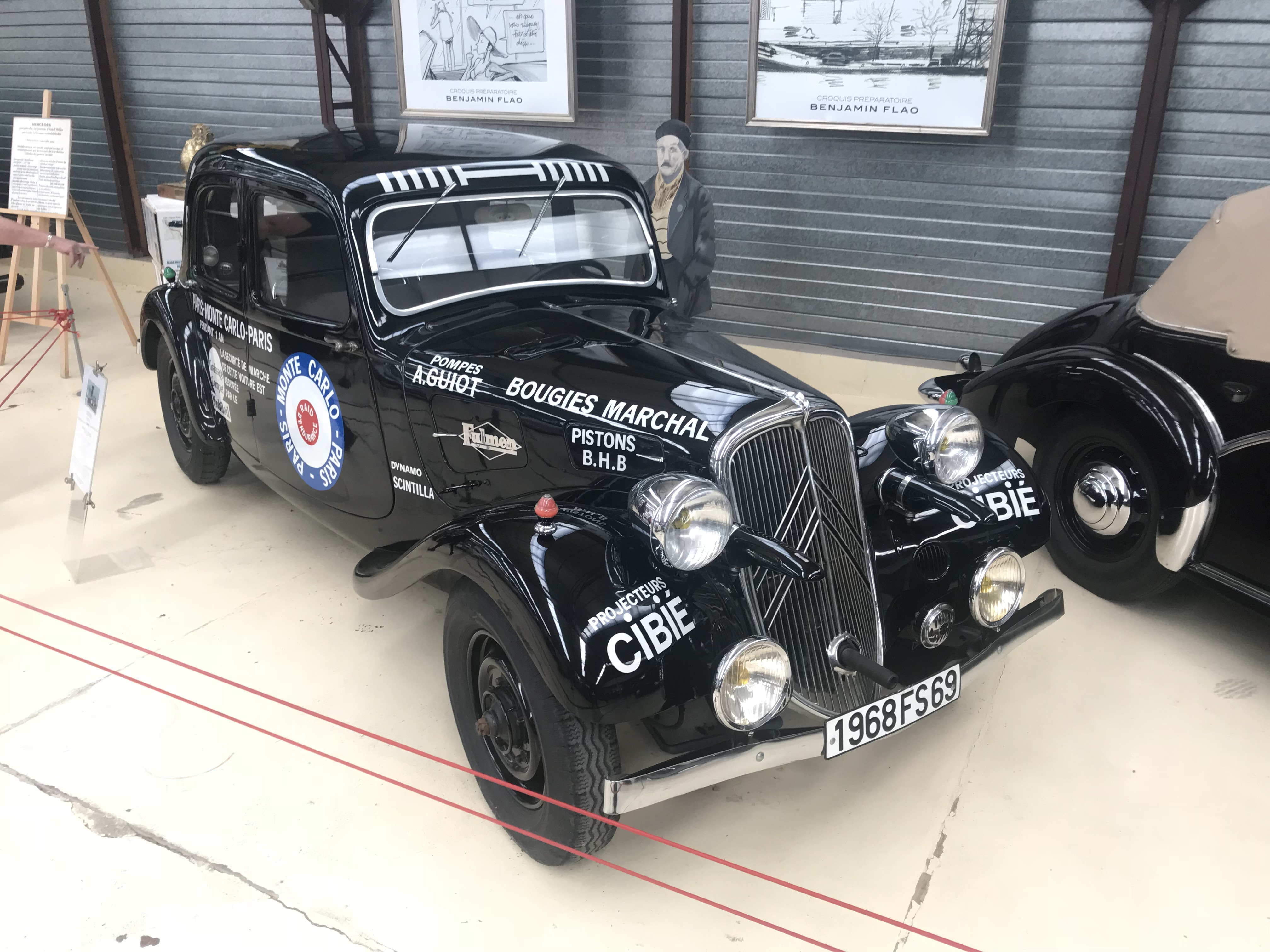 Citroën Traction (1934–1957) at the Musée Henri Malartre